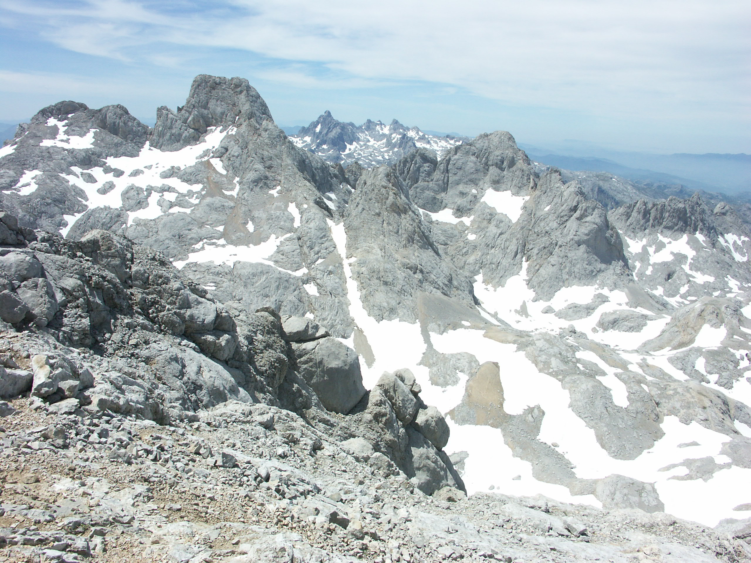 Torre Cerredo and Cabrones. Between them, the Western Massif presided by the Peñas Santas.